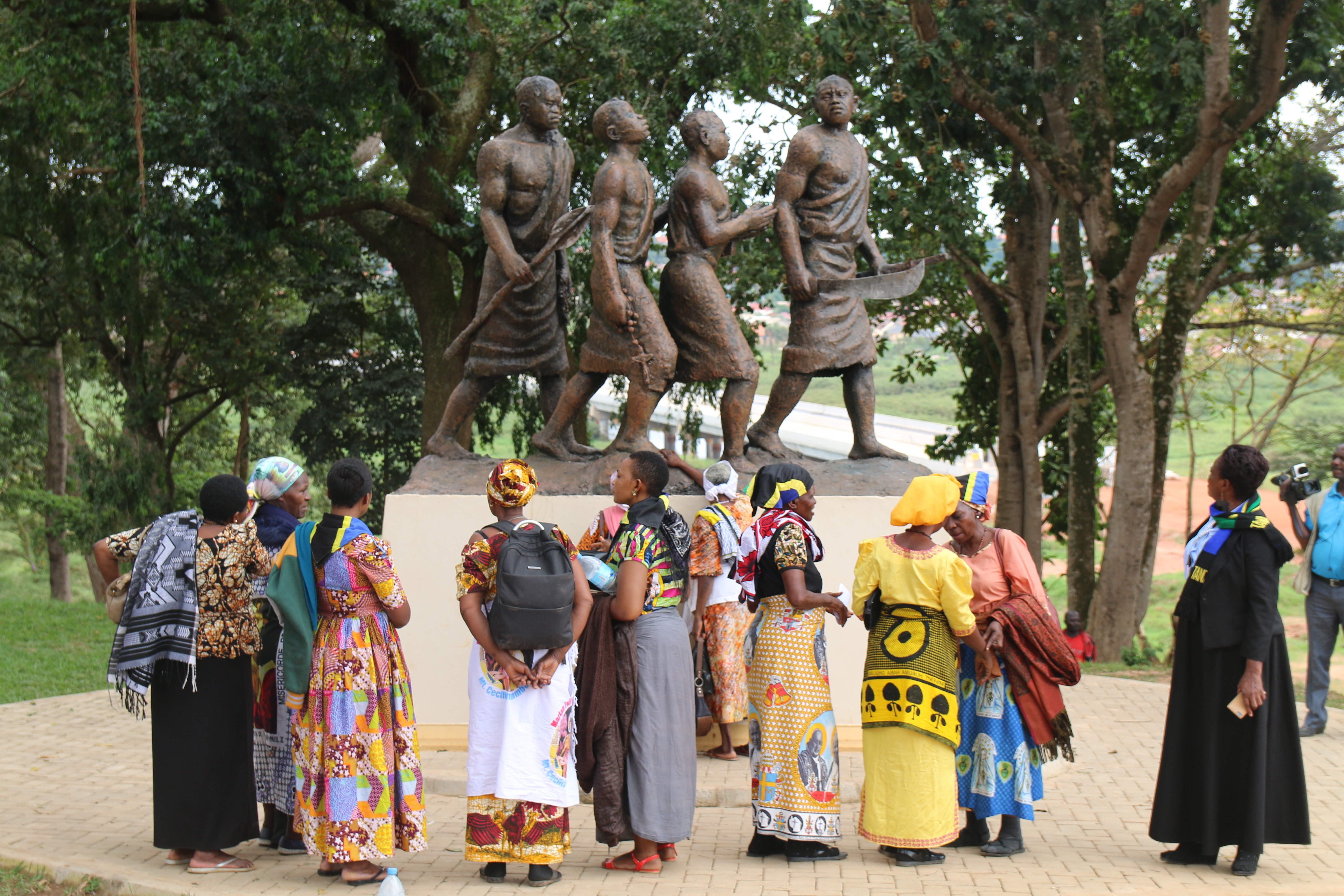 Monument of Uganda Martyrs and their oppressors, walking towards Namugongo, erected in Munyonyo on the spot from were the journey on 26th May 1886 started.